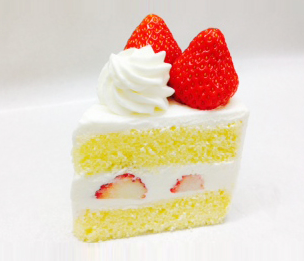 神戸ルージュ使用 factoryshin ショートケーキ限定品